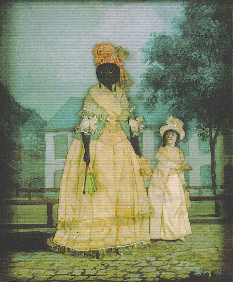 Free woman of color with quadroon daughter; late 18th century collage painting, New Orleans. Presumably the are posed in front of their home.